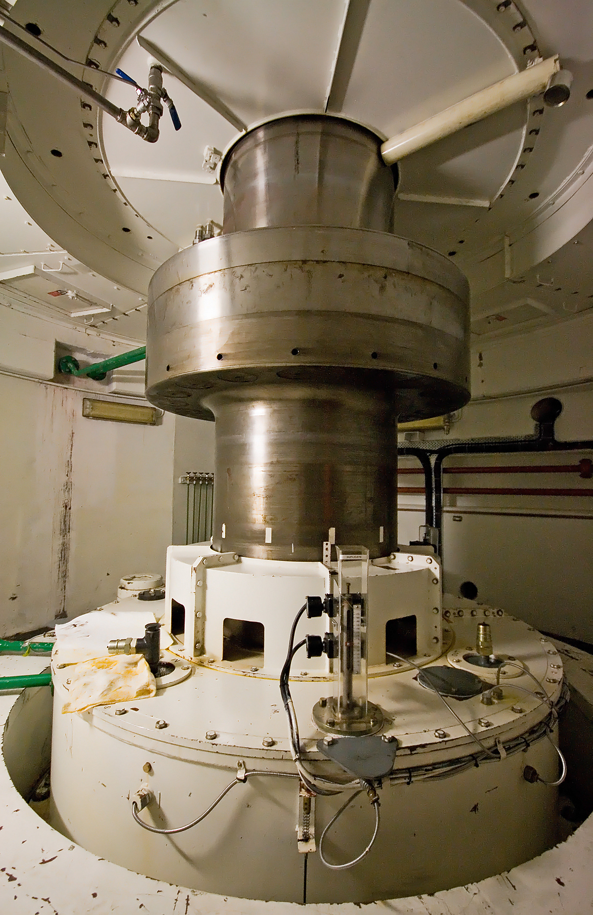 Shaft connecting the third Francis turbine to the rotor. The bearing at the top supports the load of the shaft and turbine, the bottom bearing is primarily for alignment. At Gordon Power Station, Southwest National Park, Tasmania, Australia